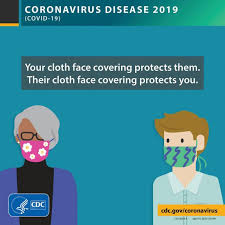 CDC graphic to explain the purpose of a cloth face mask.